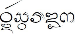 Lanna Name